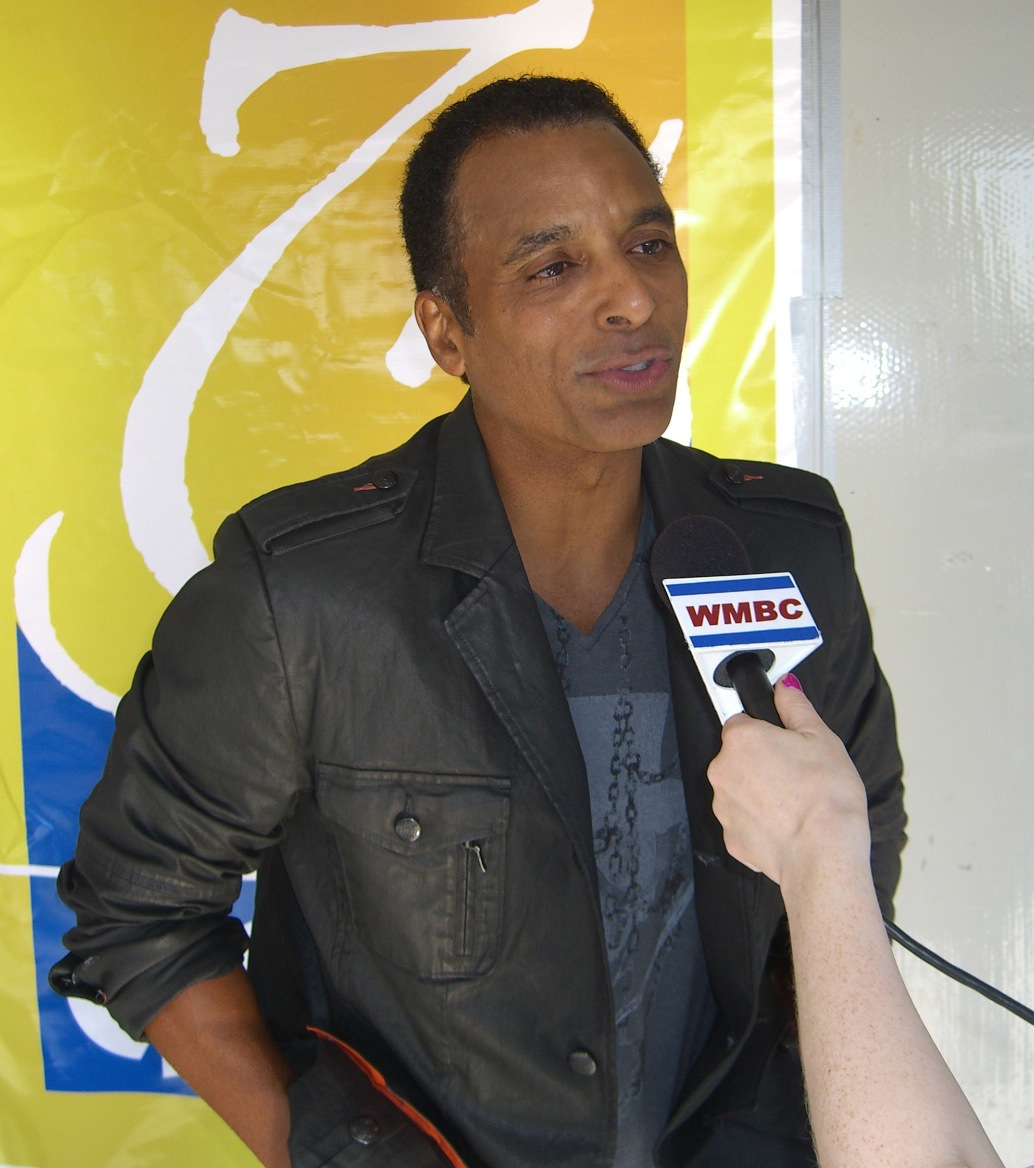 Grammy Award-winning singer Jon Secada being interviewed by WMBC-TV at a June 2, 2011 ceremony at Celia Cruz Plaza in Union City, Jersey, where he was honored by the city with a star at the Plaza's Walk of Fame for contributions to the world of Latin entertainment and media. Photographed by Luigi Novi. This photo is not in the public domain. It may, however, be used, modified and published for any purpose, free of charge, only if the photographer is properly credited, either by linking the photograph to this page, or with an easily visible credit to the photographer placed near the photo in each instance in which it is used. (See licensing information below.) Publication of this photo without this proper attribution constitutes copyright infringement. If you have any questions, you can contact me on my Wikipedia Talk Page.